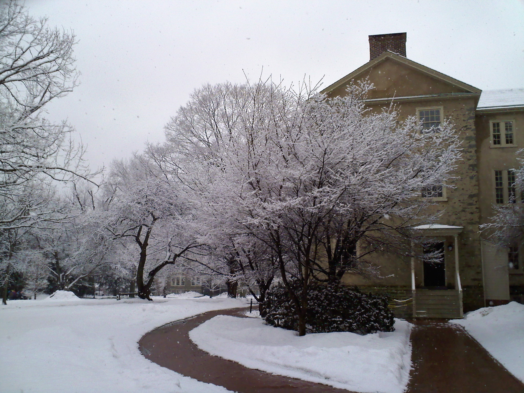 Photo of Cherry Trees around Haverford College Founders Hall, Haverford, Pennsylvania, USA.